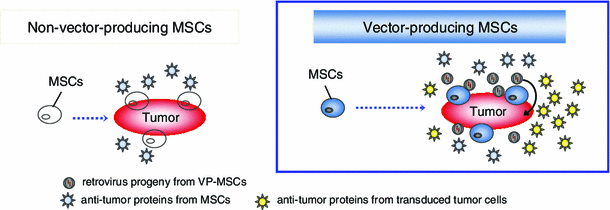 mesenchymal stem cell